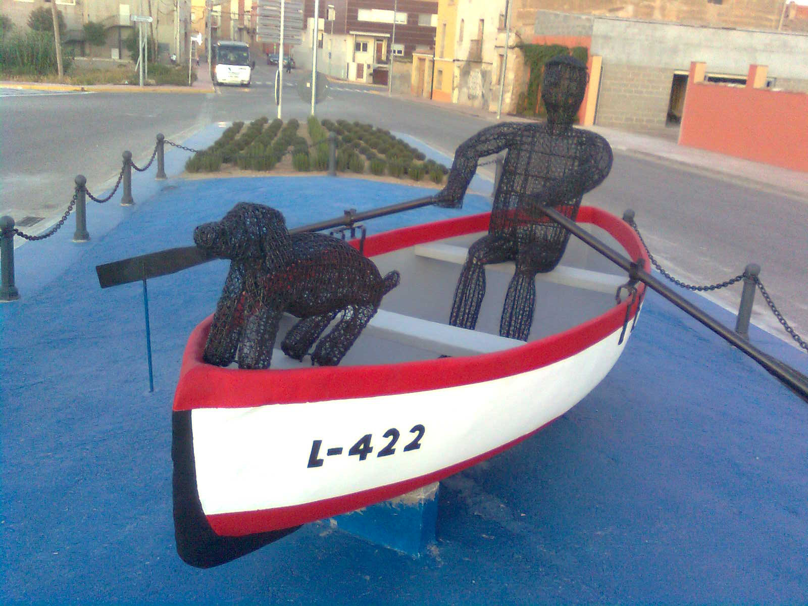 Real boat made entirely with cement, which was used by fishermen in the Lake of Ivars i Vila-sana, Pla d'Urgell, Catalonia